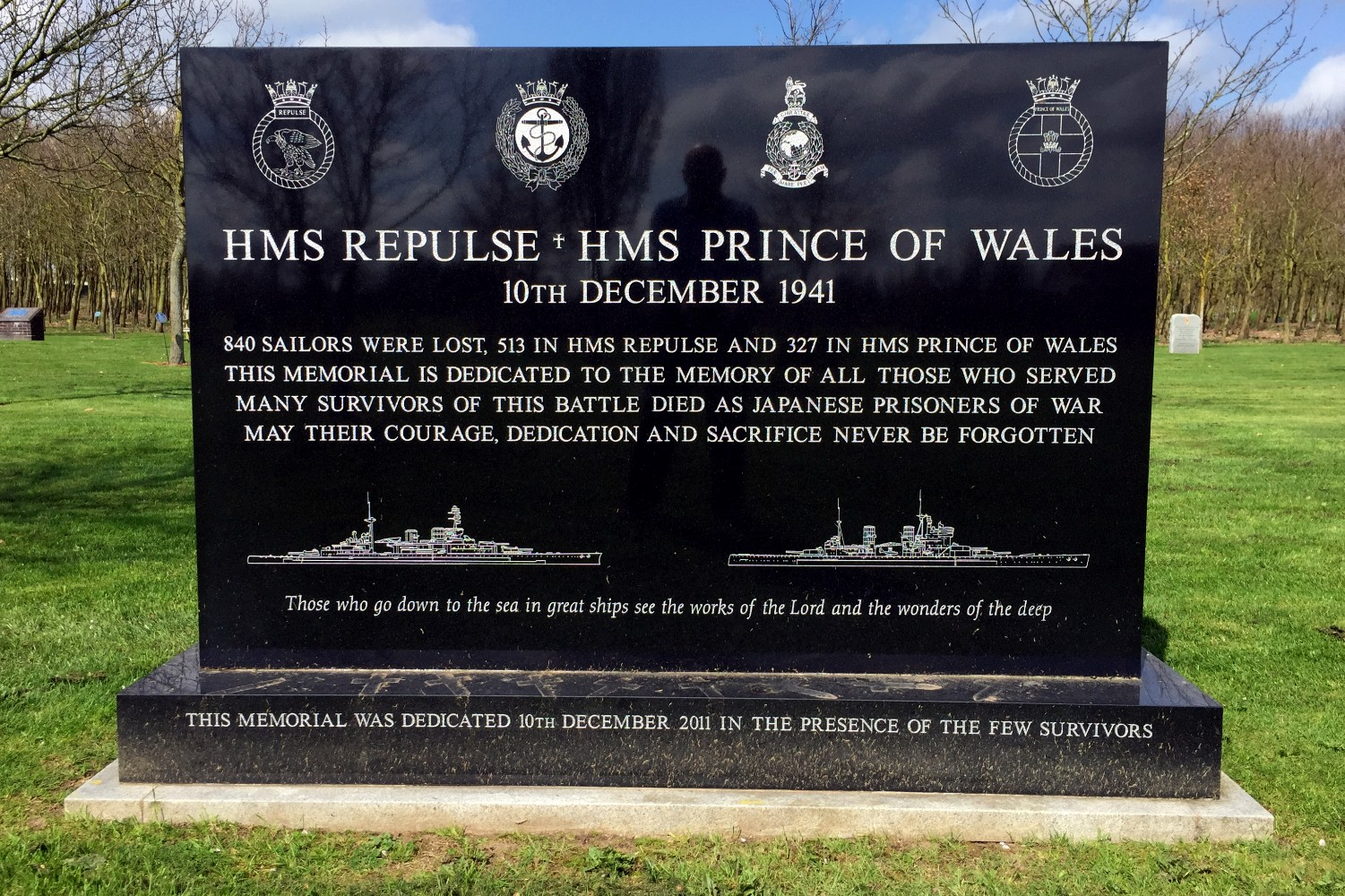 Memorial to the Prince of Wales and Repulse at the National Memorial Arboretum at Alrewas, near Lichfield, Staffordshire, United Kingdom.